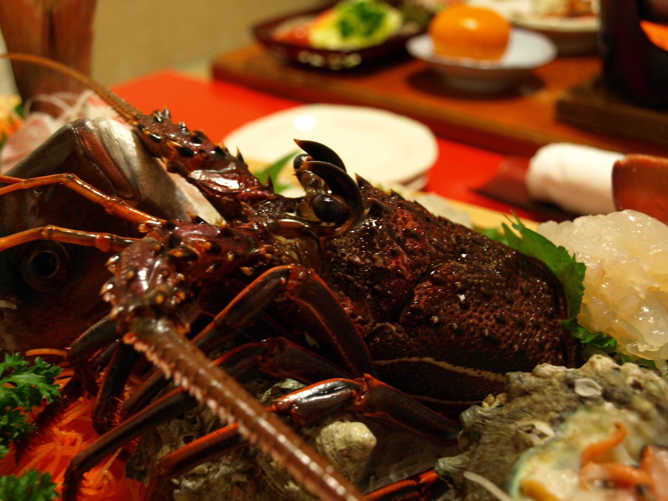 Japanese spiny lobster sashimi served at a ryokan in Tōshi-jima island, Toba, Mie, Japan.